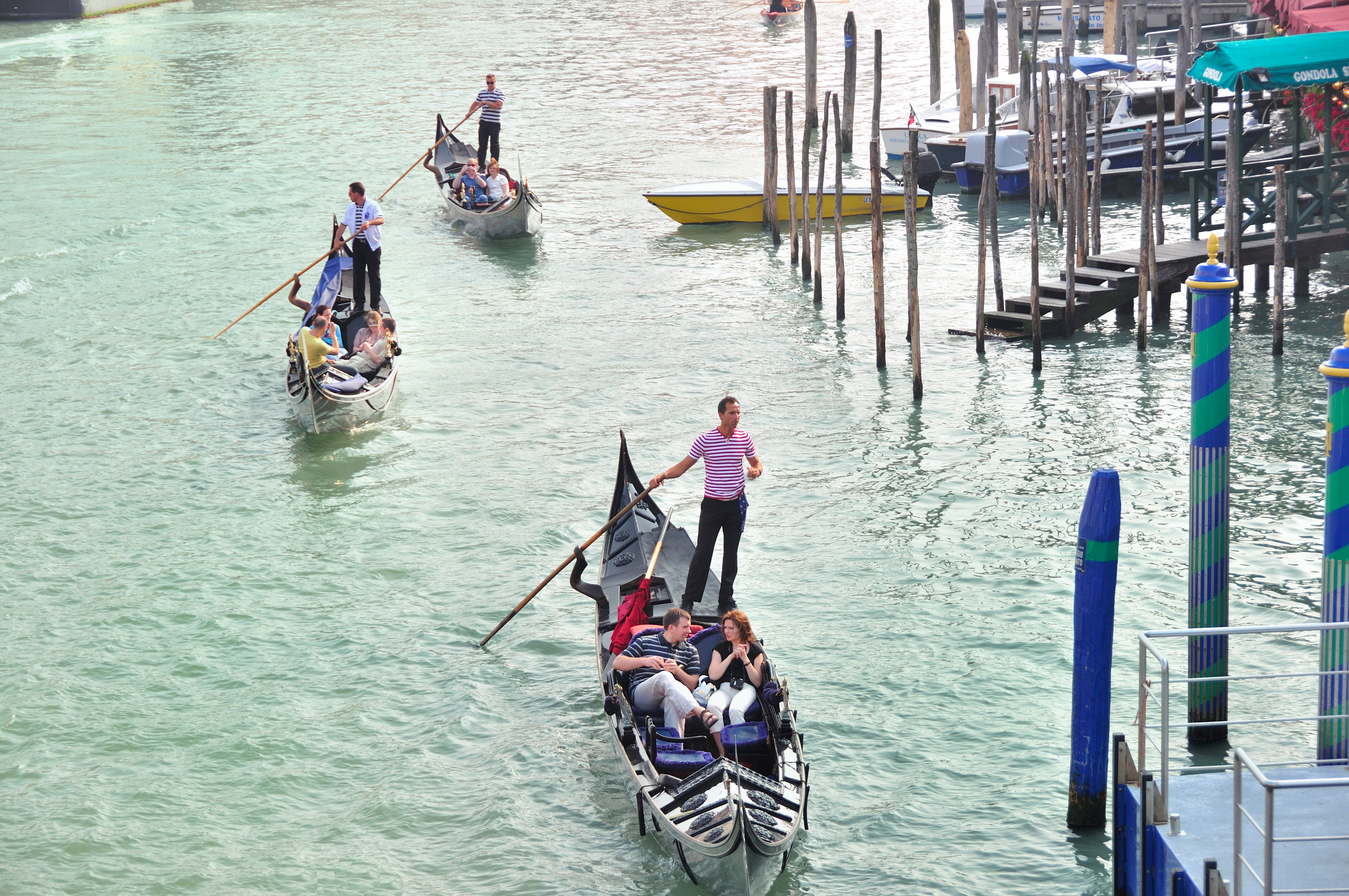 The water streets of Venice are canals which are navigated by gondolas and other small boats. During daylight hours the canals, bridges, and streets of Venice are full of tourists eager to experience the romance of this great travel destination. As night engulfs the town, tourists enjoy some fine dining at one of the many restaurants, leaving the waterways and streets quiet. The gondola is a traditional, flat-bottomed Venetian rowing boat, well suited to the conditions of the Venetian Lagoon. For centuries gondolas were once the chief means of transportation and most common watercraft within Venice. In modern times the iconic boats still have a role in public transport in the city, serving as ferries over the Grand Canal. They are also used in special regattas (rowing races) held amongst gondoliers. Their main role, however, is to carry tourists on rides throughout the canals. Gondolas are hand made using 8 different types of wood (fir, oak, cherry, walnut, elm, mahogany, larch and lime) and are composed of 280 pieces. The oars are made of beech wood. The left side of the gondola is longer than the right side. This asymmetry causes the gondola to resist the tendency to turn toward the left at the forward stroke.